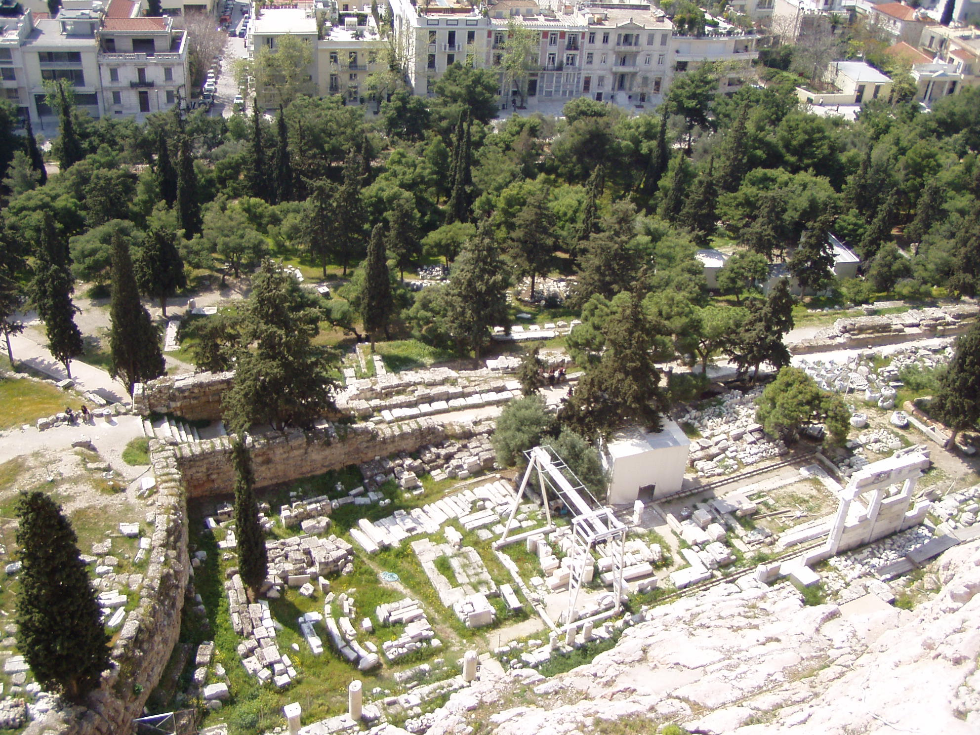 This is the Asclepieion near the Acropolis in Athens.